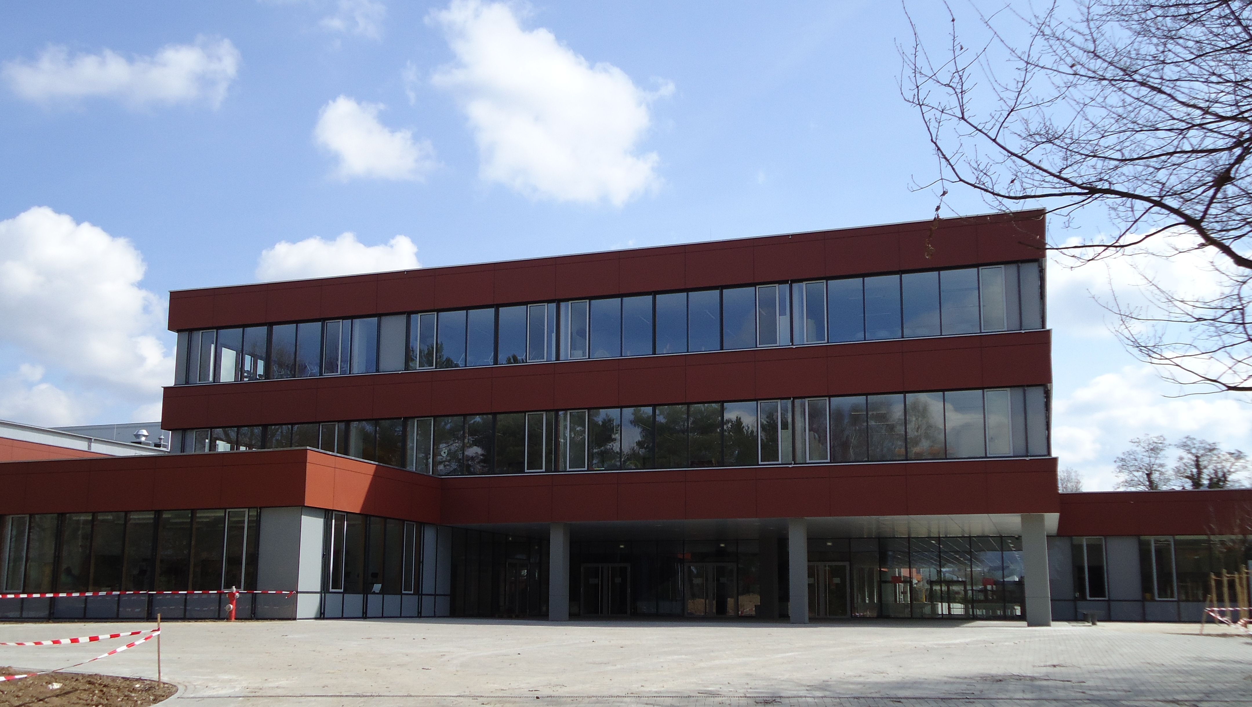 Stiftland-Gymnasium Tirschenreuth seen from behind